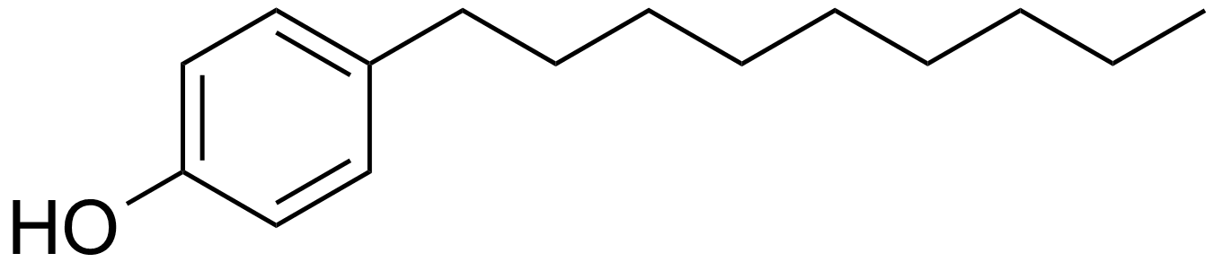 Chemical stucture of 4-nonylphenol created with ChemDraw.